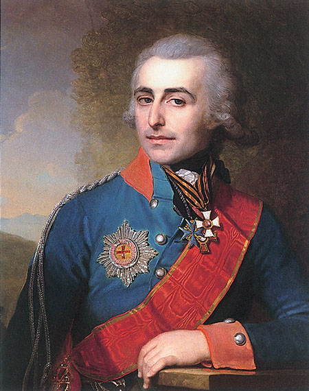 Pyotr Aleksandrovich Tolstoy by Vladimir Borovikovsky